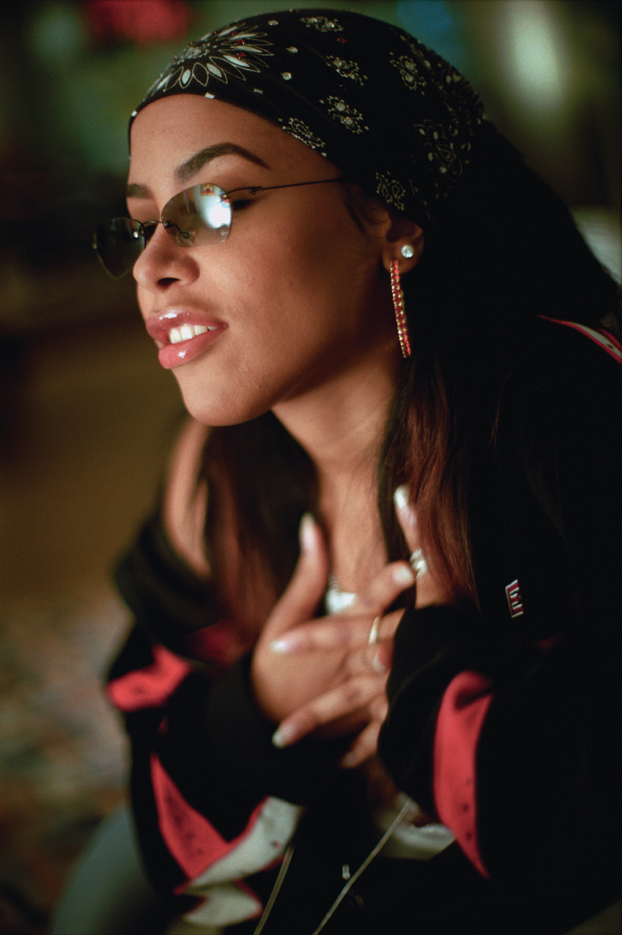 Aaliyah in Germany may 2000